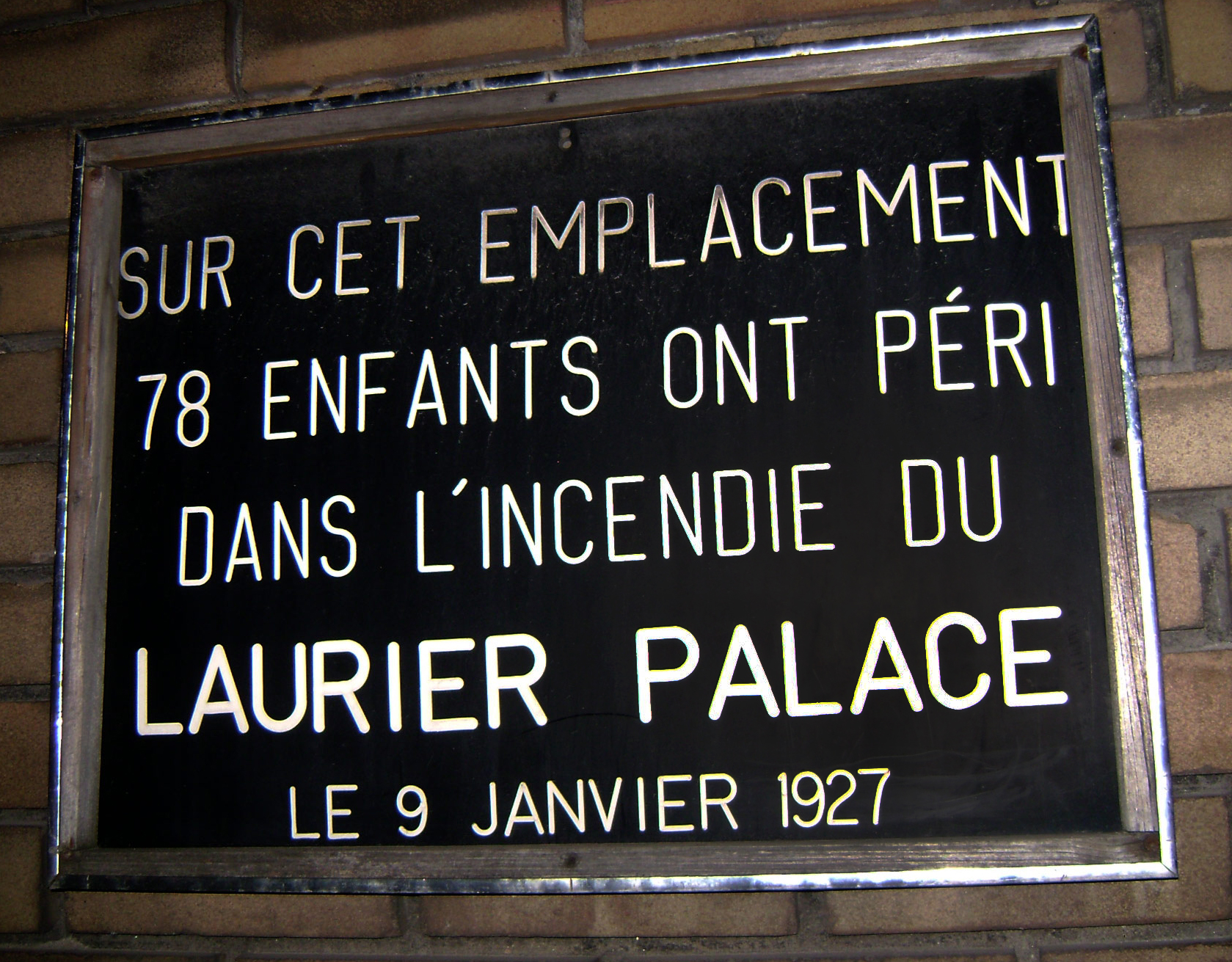 A plaque dedicated to 78 children who died in the fire at Laurier Palace Theatre in Montreal, Quebec, Canada on 9 January 1927. The plaque is located at 3215 Ste.Catherine E. in Montreal, where the movie theater stood.